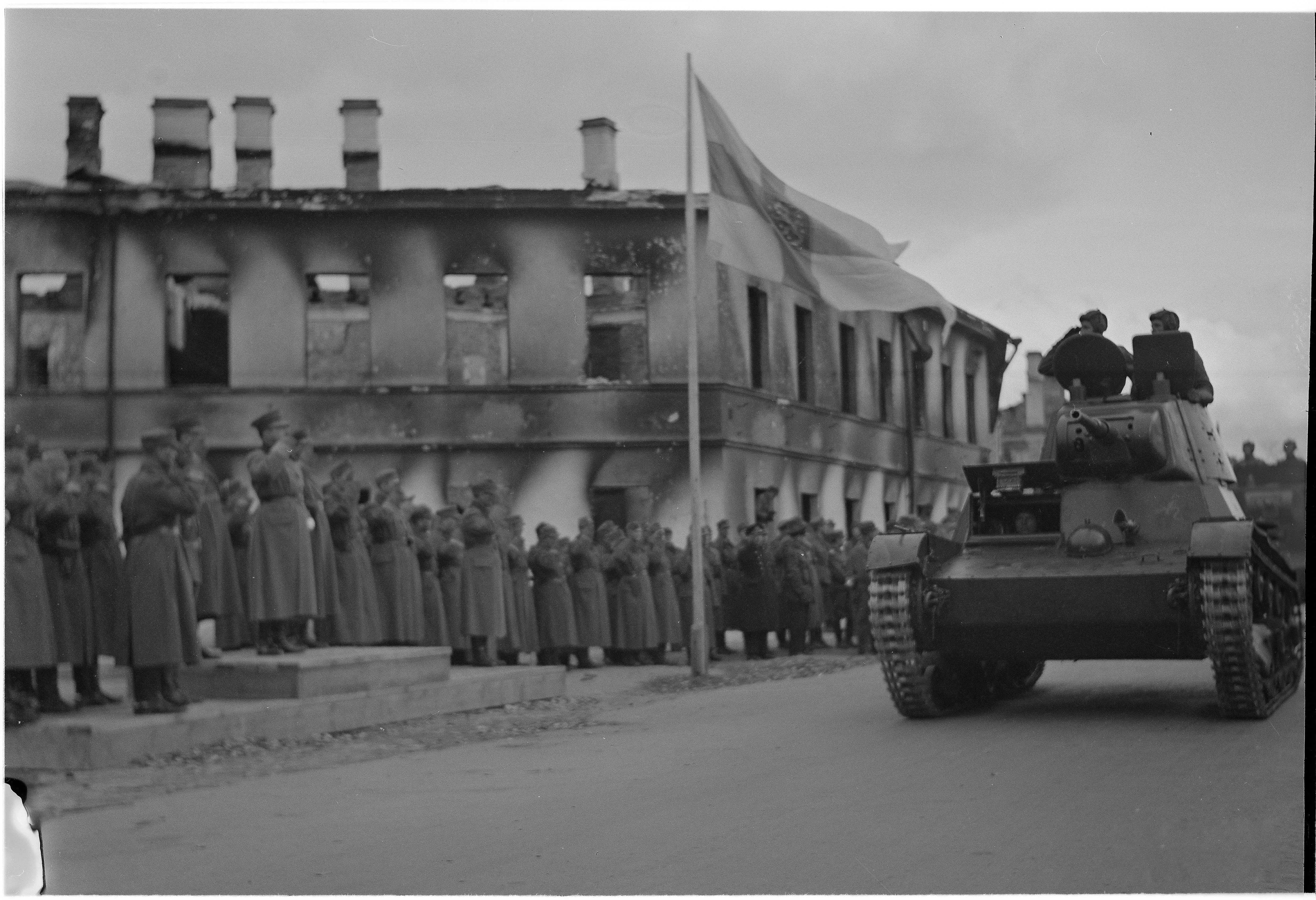 Petrozavodsk captured by Finns. Parade on 12 October 1941